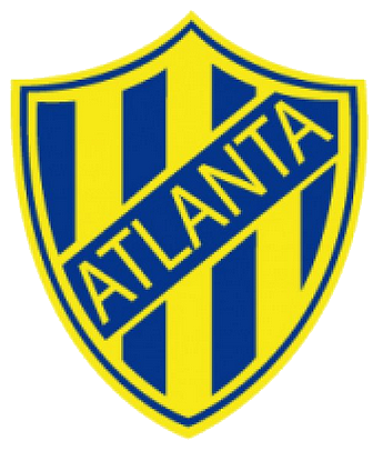 Logo of Argentine Club Atlético Atlanta.